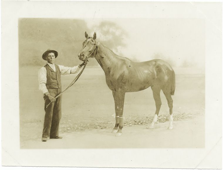 Luke Blackburn, circa 1880